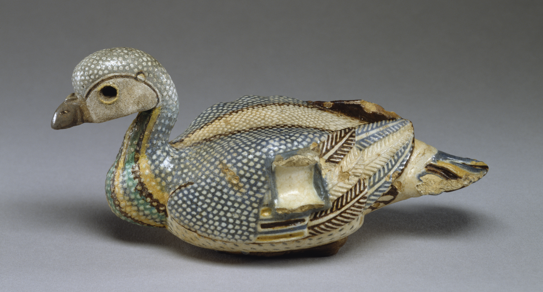 Egyptian faience is a composite material composed of ground quartz and natron (sodium carbonate and sodium bicarbonate). Most faience is glazed in a vivid blue or green color; the polychrome faience seen here is much more complicated to produce. The duck was mold-made together with the remains of its ring handle on the bird's left side. The surface of the body displays a raised dot pattern, while the end of the wings have a feather pattern. The form may have been inspired by the red-figure duck vases of Etruria and south Italy. The duck is depicted with such detailed naturalism that the underside even has delicately modeled webbed feet.